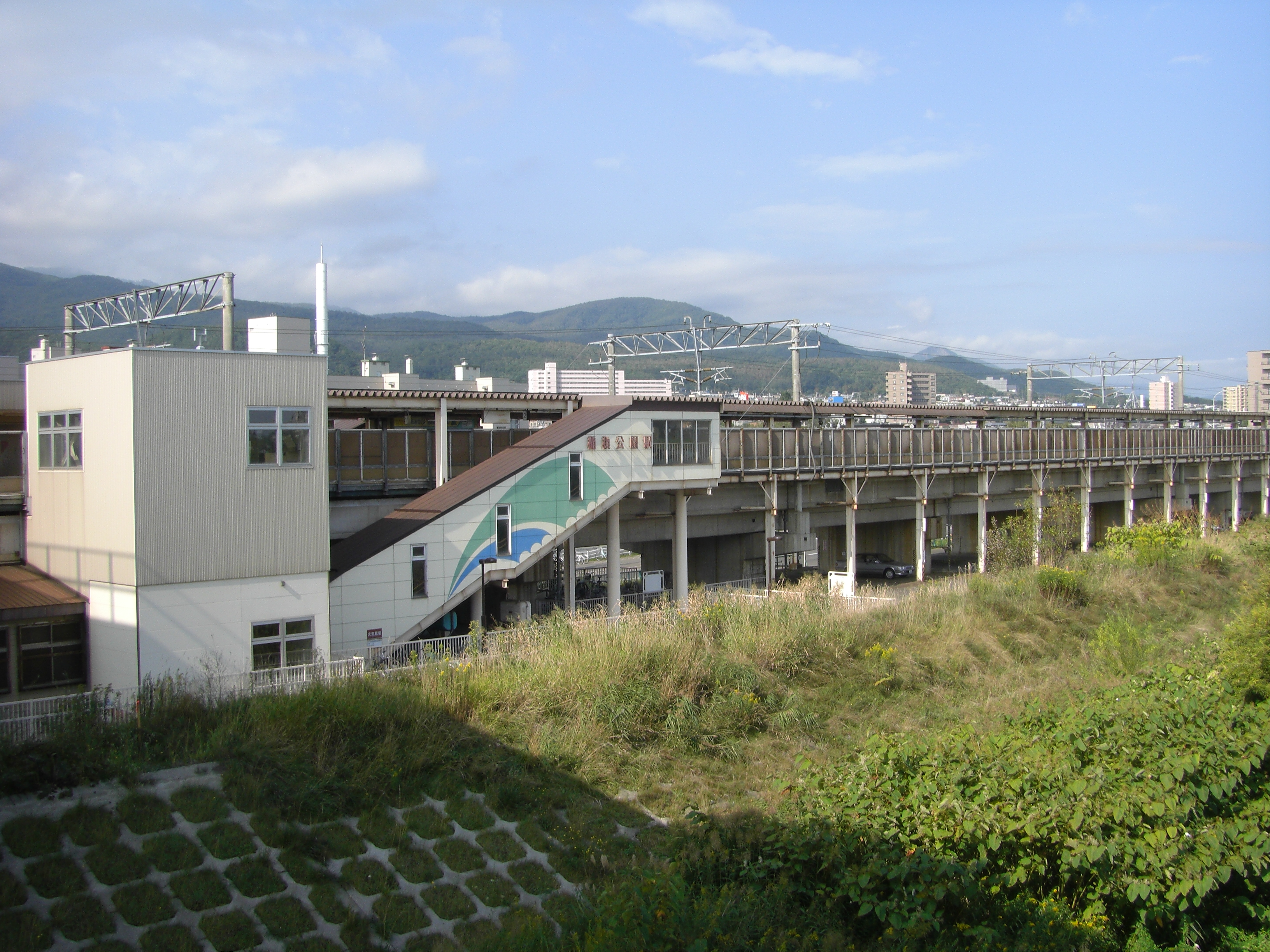 Inazumi-kōen Station in Sapporo, Hokkaido, Japan. It is the station on the Hakodate Main Line operated by JR Hokkaido.